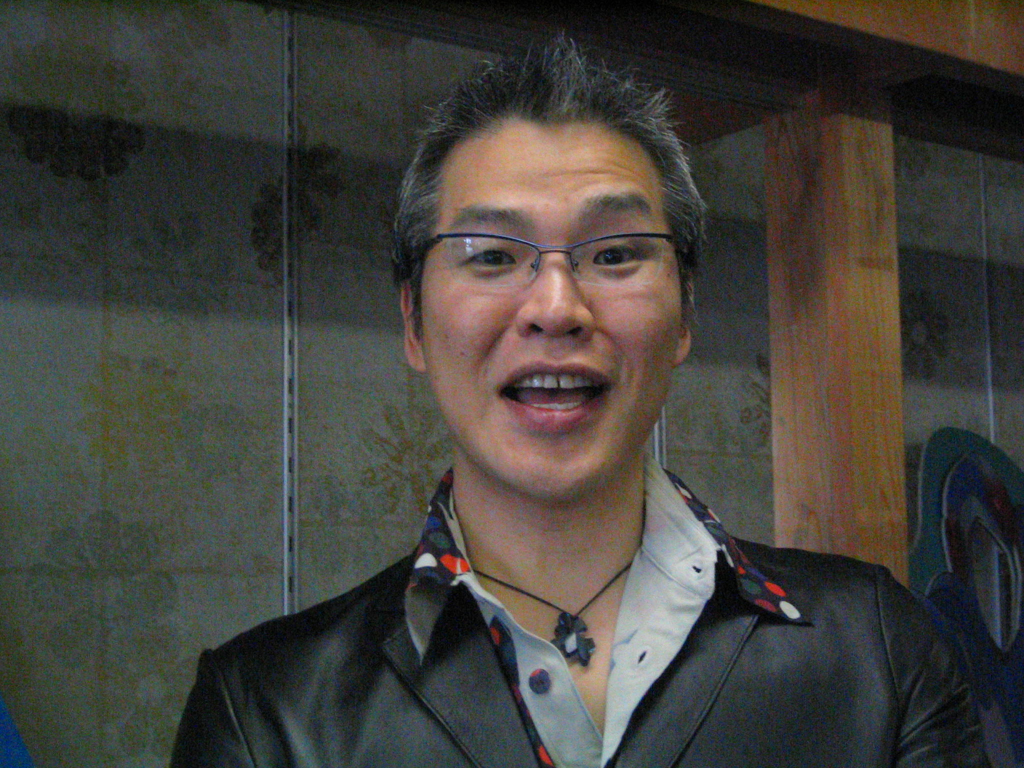 I brought him to San Francisco for the screening of A GOOD LAWYER'S WIFE